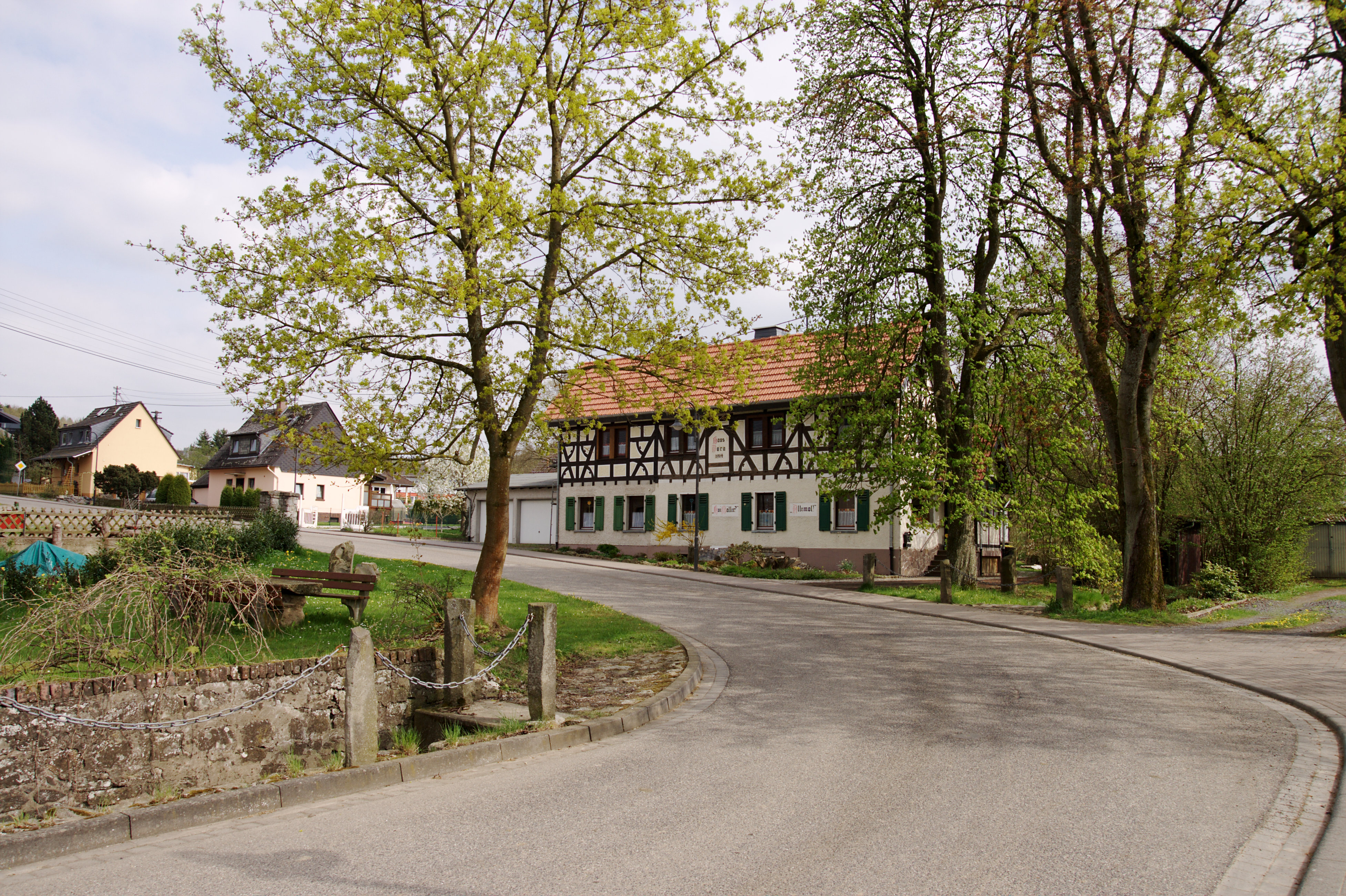 Village Vielbach, Westerwald, Germany. View over the road Quirnbacher Straße